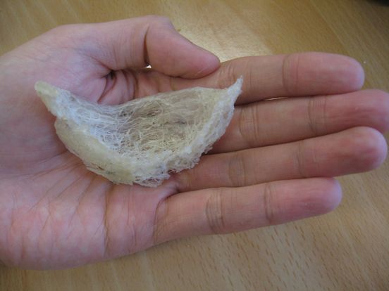 Aerodramus.JPG is bird nest